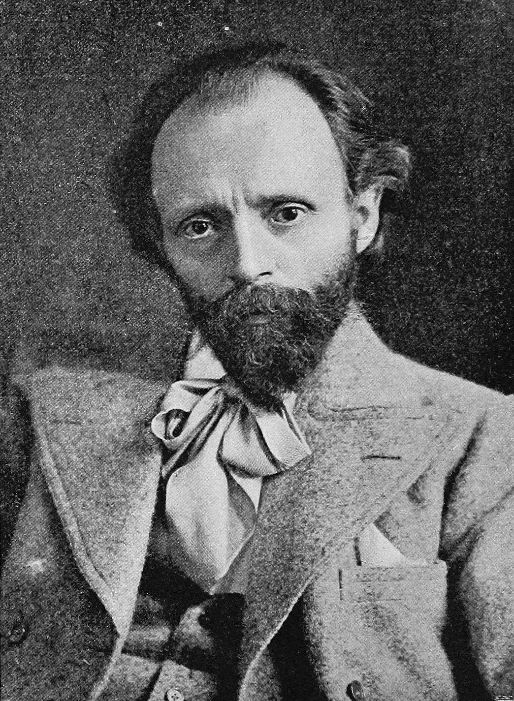 Hall Caine